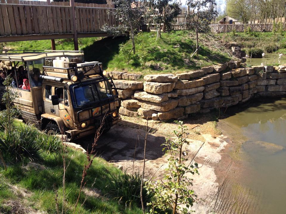 Zufari ride at Chessington World of Adventures.